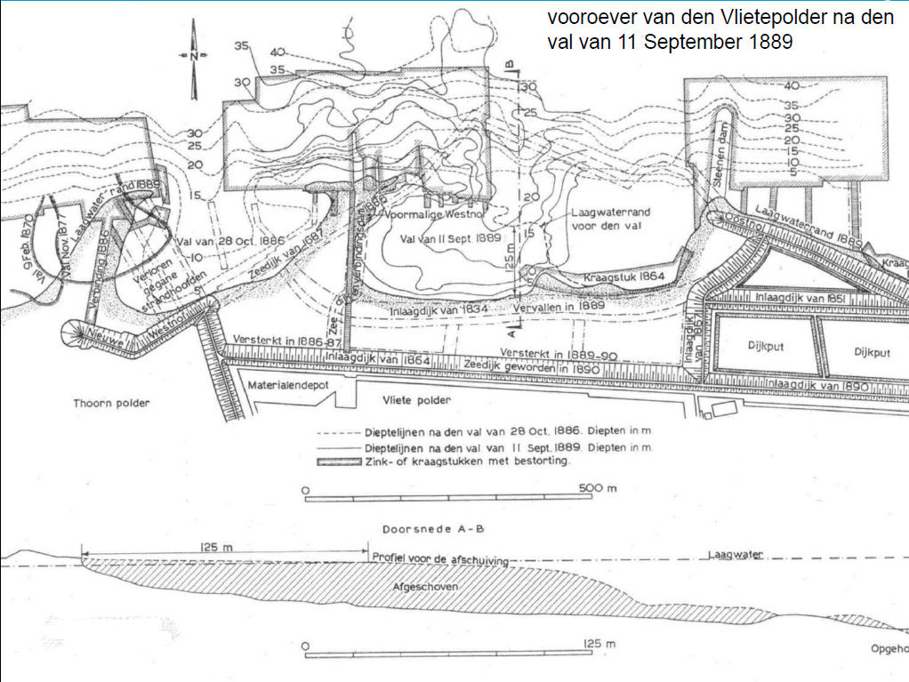 Liquefaction problems and bed protections with mattresses in Zeeland